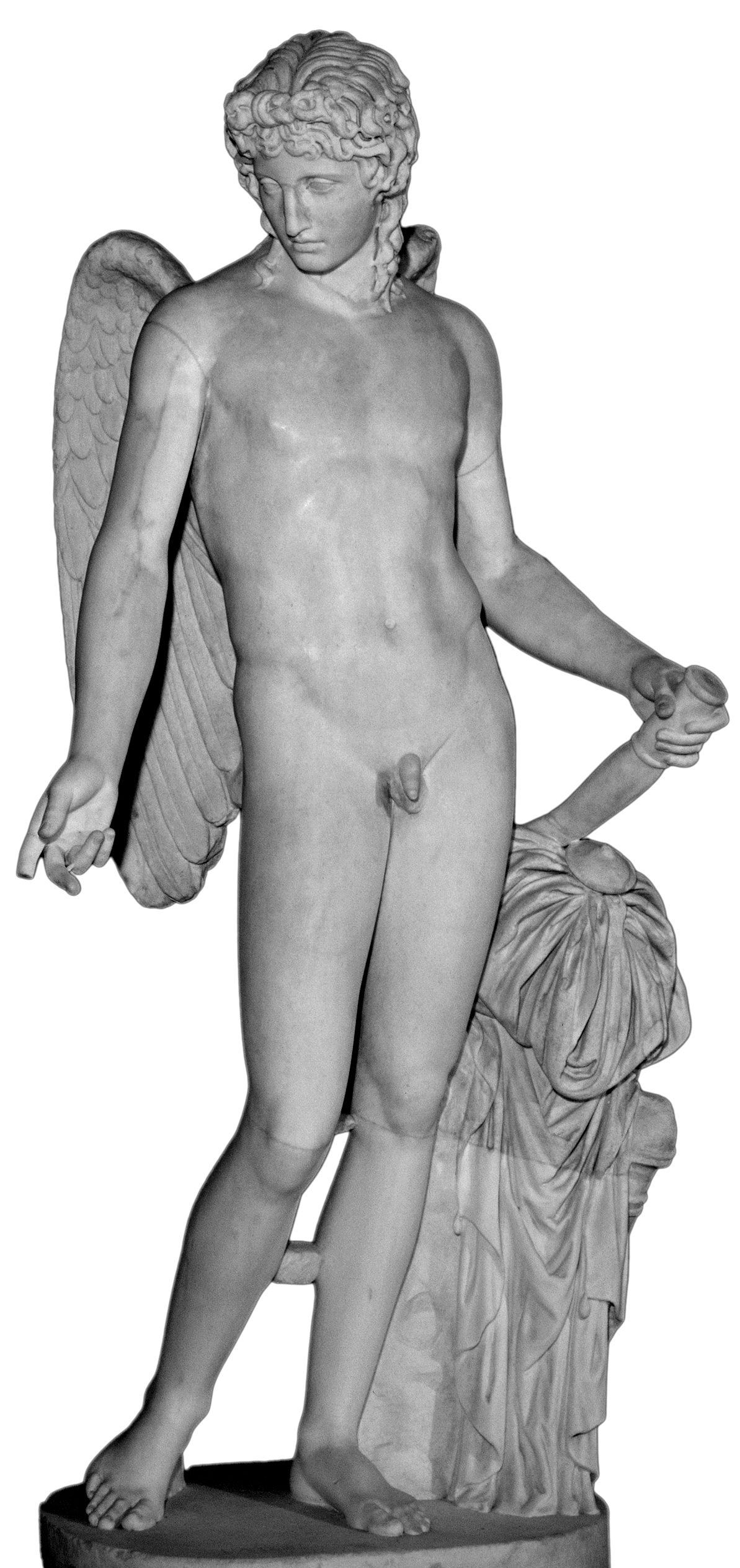 So-called Eros Farnese, statue of Eros of the Centocelle type. Farnesian statue, Naples Archeological Museum, inv. 6353.